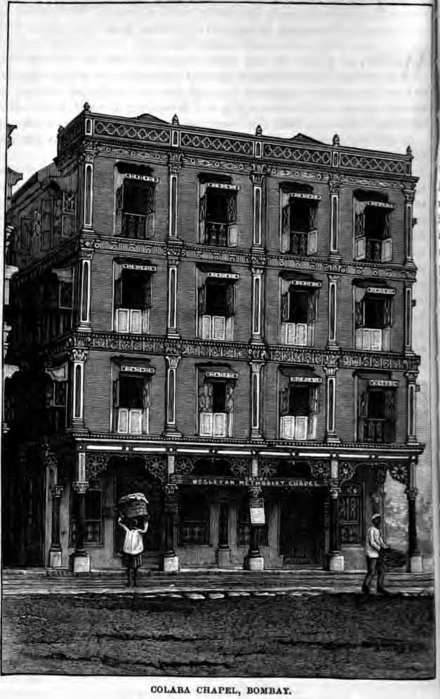 Colaba Chapel, Bombay (Clutterbuck, p. 173), A Sketch of the Mission in Bombay, Rev, G W Clutterbuck, Wesleyan-Methodist Magazine, 1889